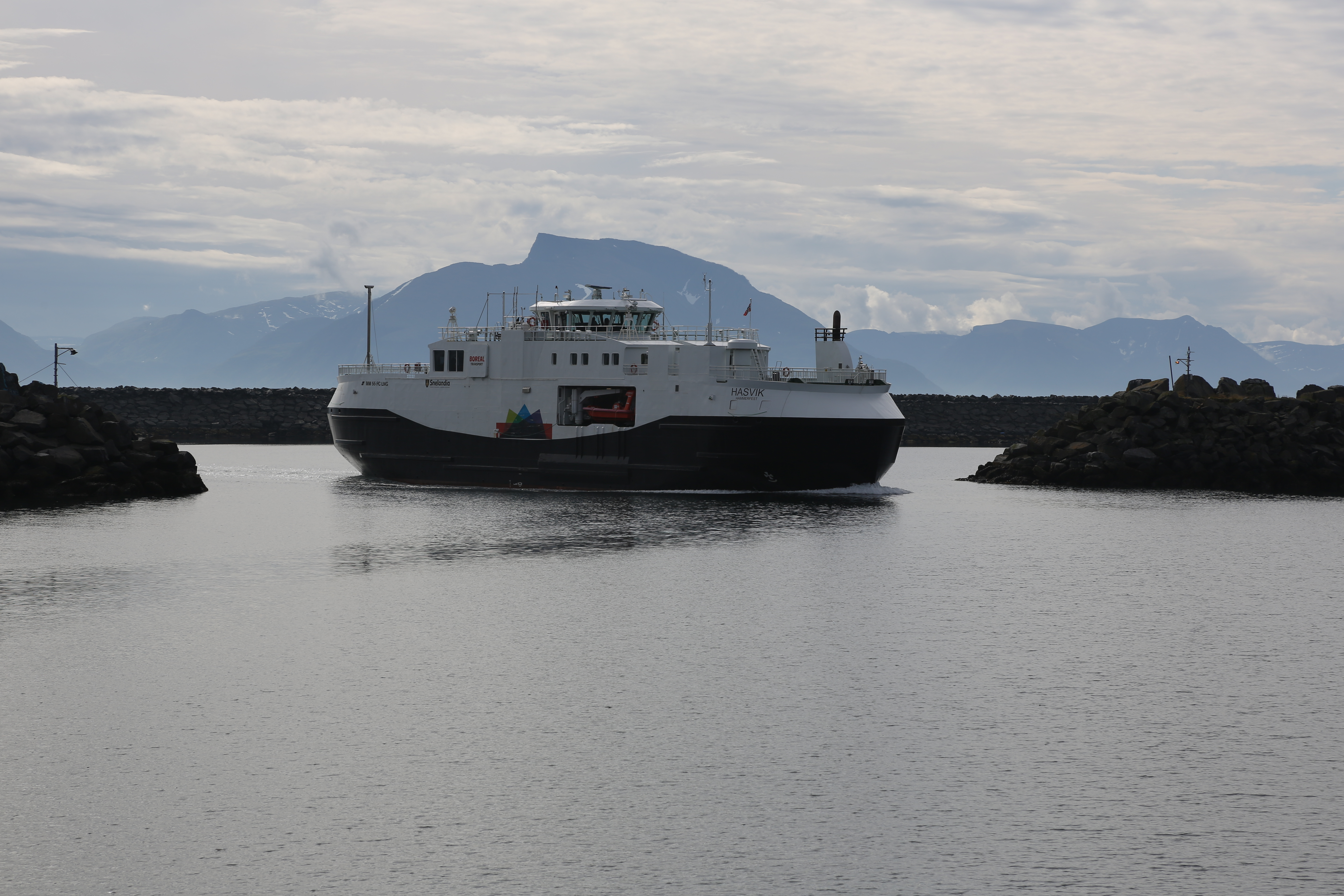 The ferry MF «Hasvik» on its way to Hasvik, Hasvik kommune, Finnmark.